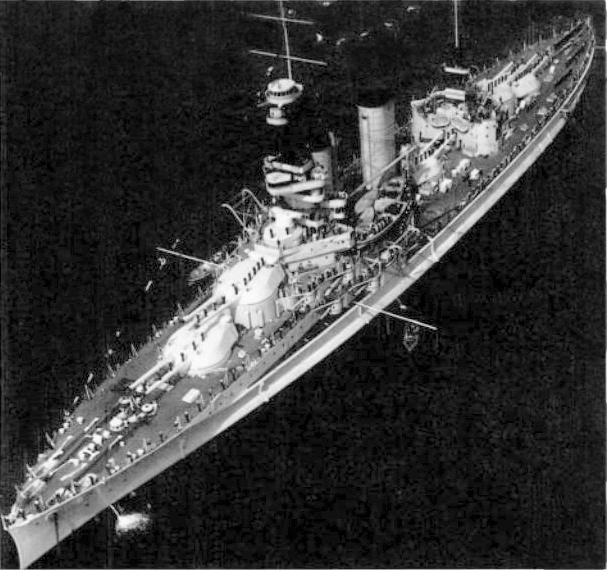 The Chilean battleship Almirante Latorre in the 1930s